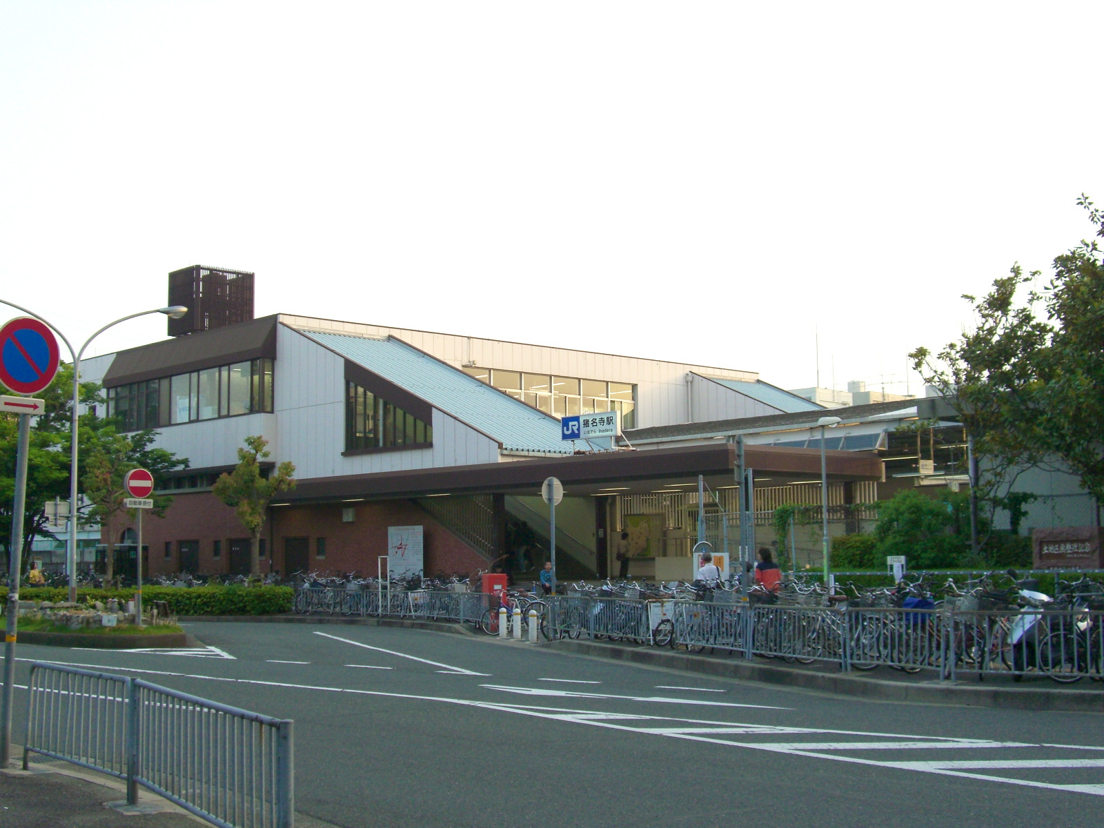 West Japan Railway Fukuchiyama Line（JR Takarazuka Line） Inadera Station Building